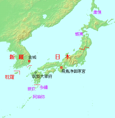 Map around of Japan in 680 AD. The Border between Silla and Tang is not drawn because I don't know...